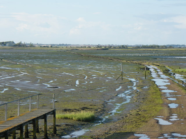 Island Lane The famous local view from Devereux Farm towards Horsey Island with the pontoon on the left. The road is revealed at low tide.